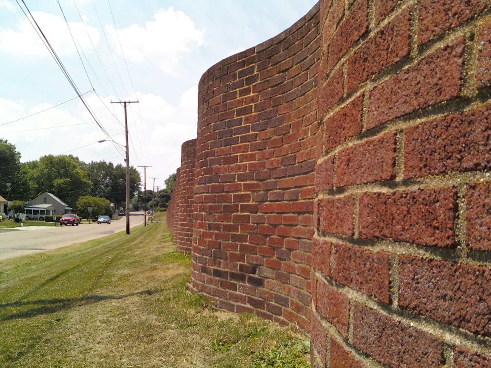 The Great Serpentine Wall surrounds Lowell Klinefelter Stadium at Canton Central Catholic High School in Canton, OH.